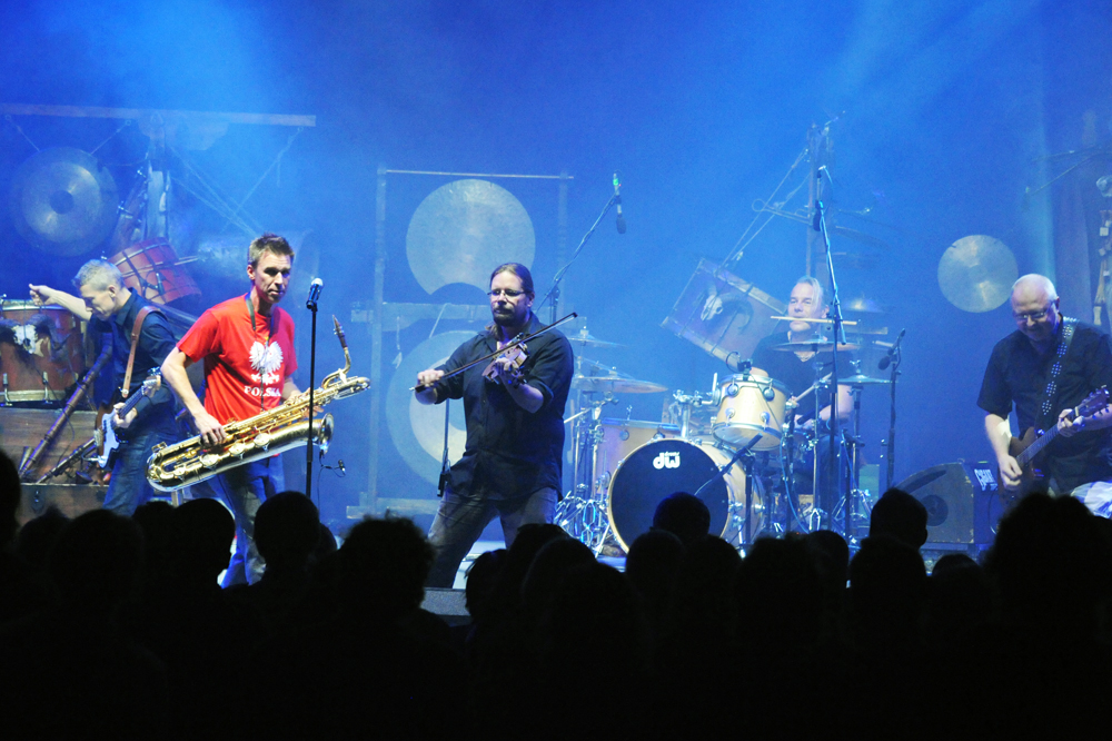 Folk-rock group from Jämtland in Sweden called Hoven Droven performing at Warszawa Cross Culture Festival in September 2011.